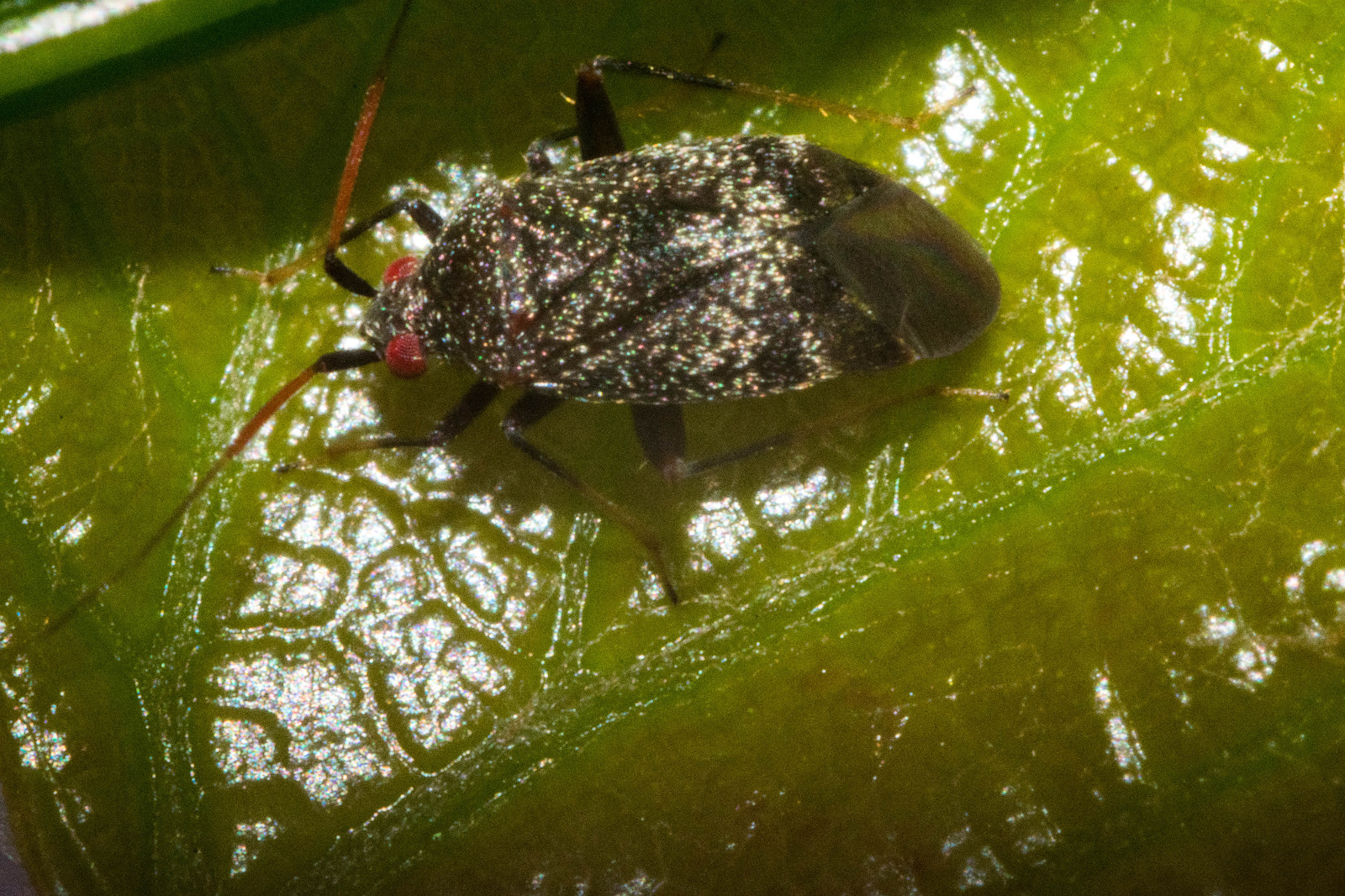 Atractotomus mali found on a leaf in Southwest Ohio